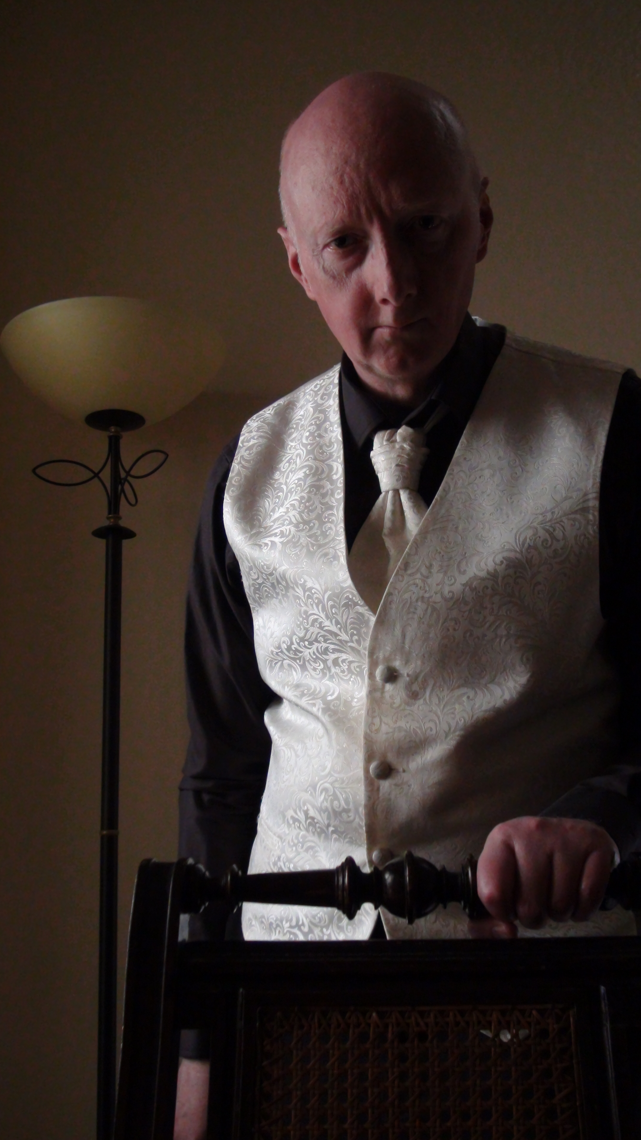 James Peace kotonaan Wiesbadenissa, Saksassa